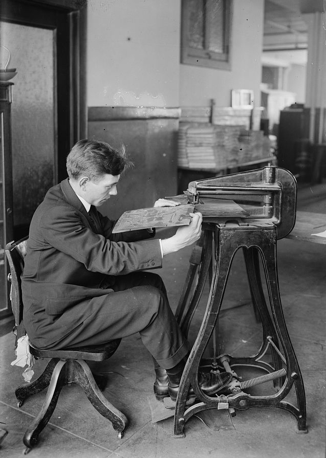 Making Map for Blind